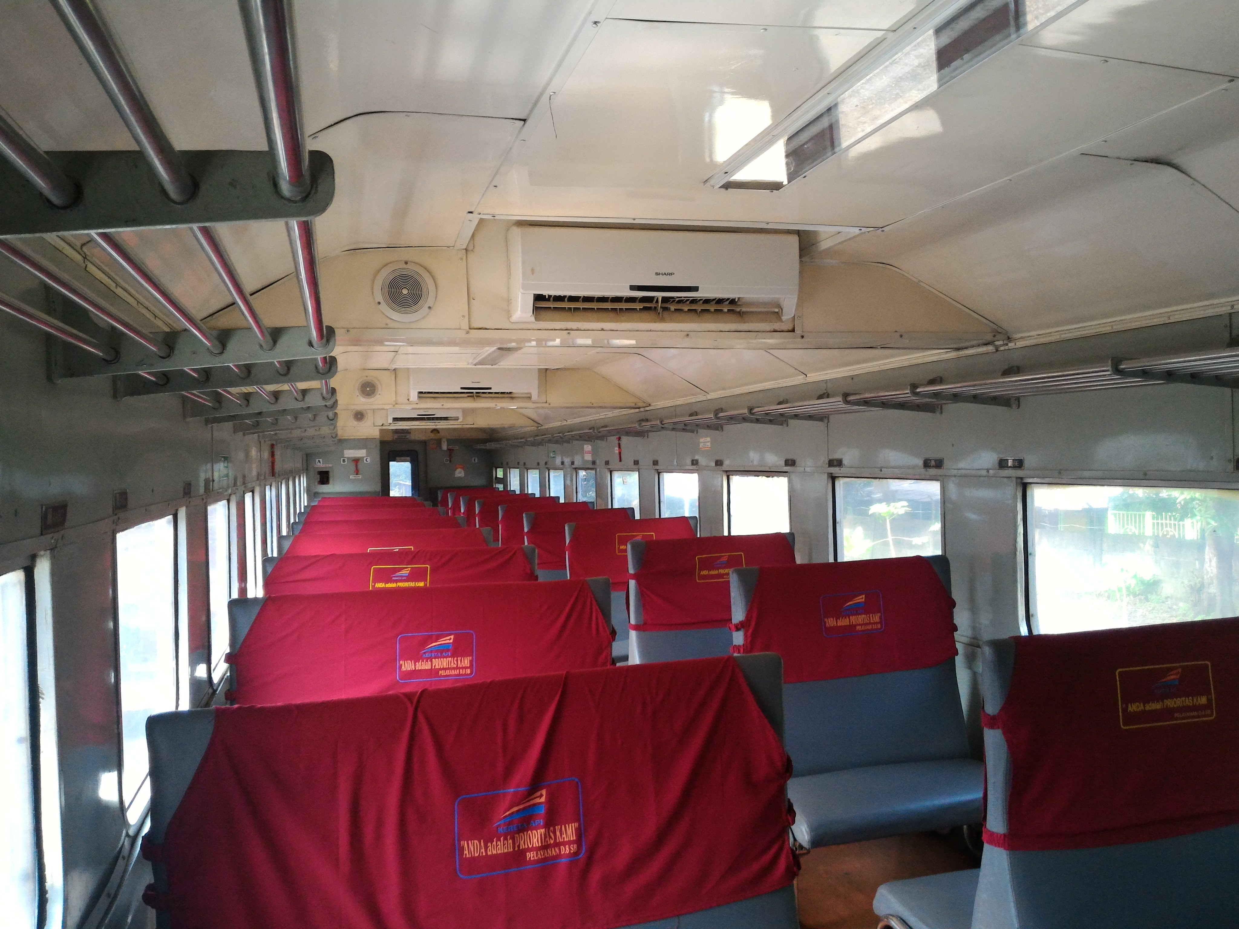 Interior of Economy PSO Class KRD Bojonegoro Train, in January 2017